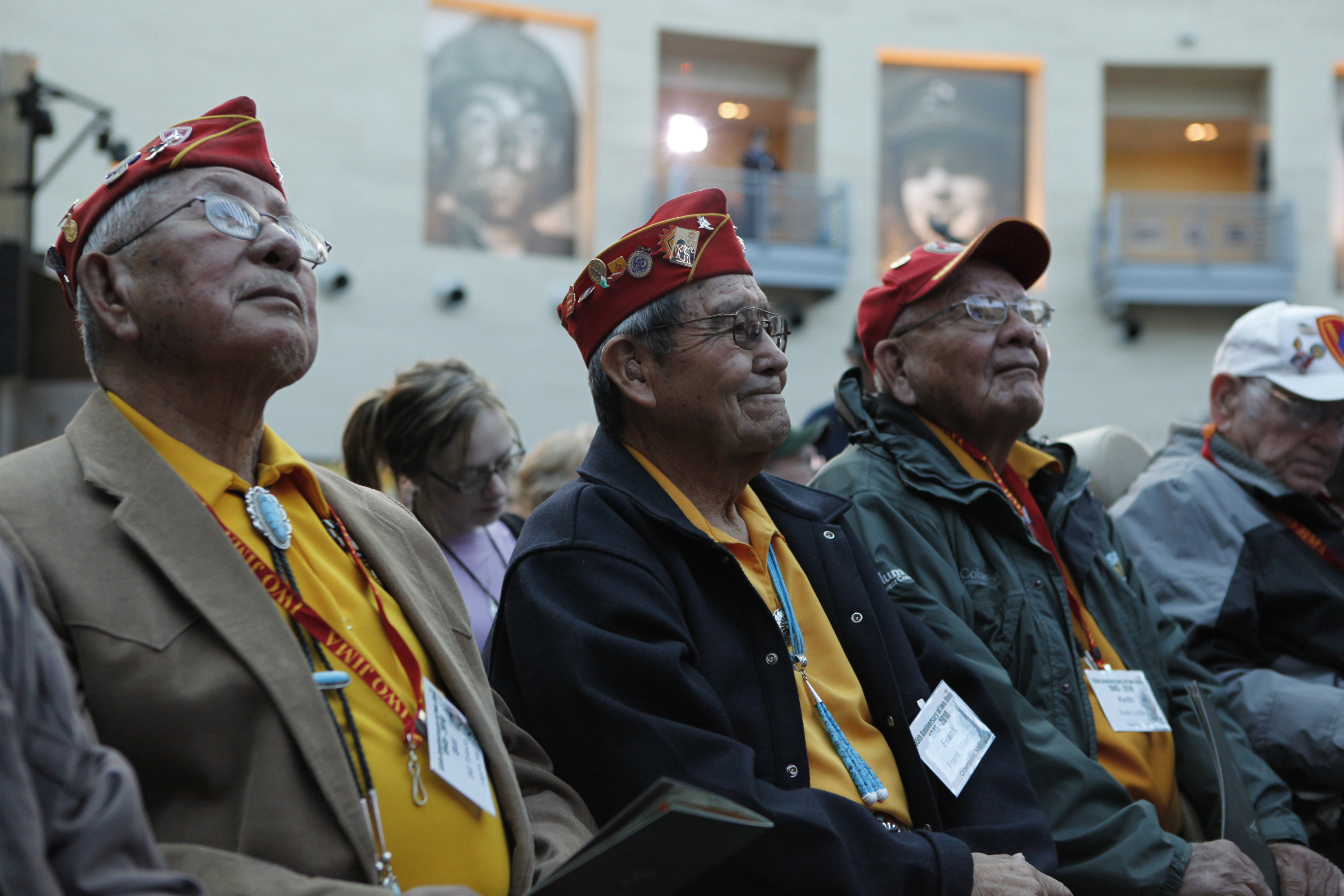 Bill Toledo, Frank G. Willetto and Keith Little, Navajo Code Talkers, were among the Iwo Jima veterans honored Feb. 19, 2010, at a ceremony commemorating the 65th anniversary of the Battle of Iwo Jima at the National Museum of the Marine Corps in Triangle, Va. On Feb. 19, 1945, the United States launched its first assault against the Japanese at Iwo Jima, resulting in some of the fiercest fighting of World War II.